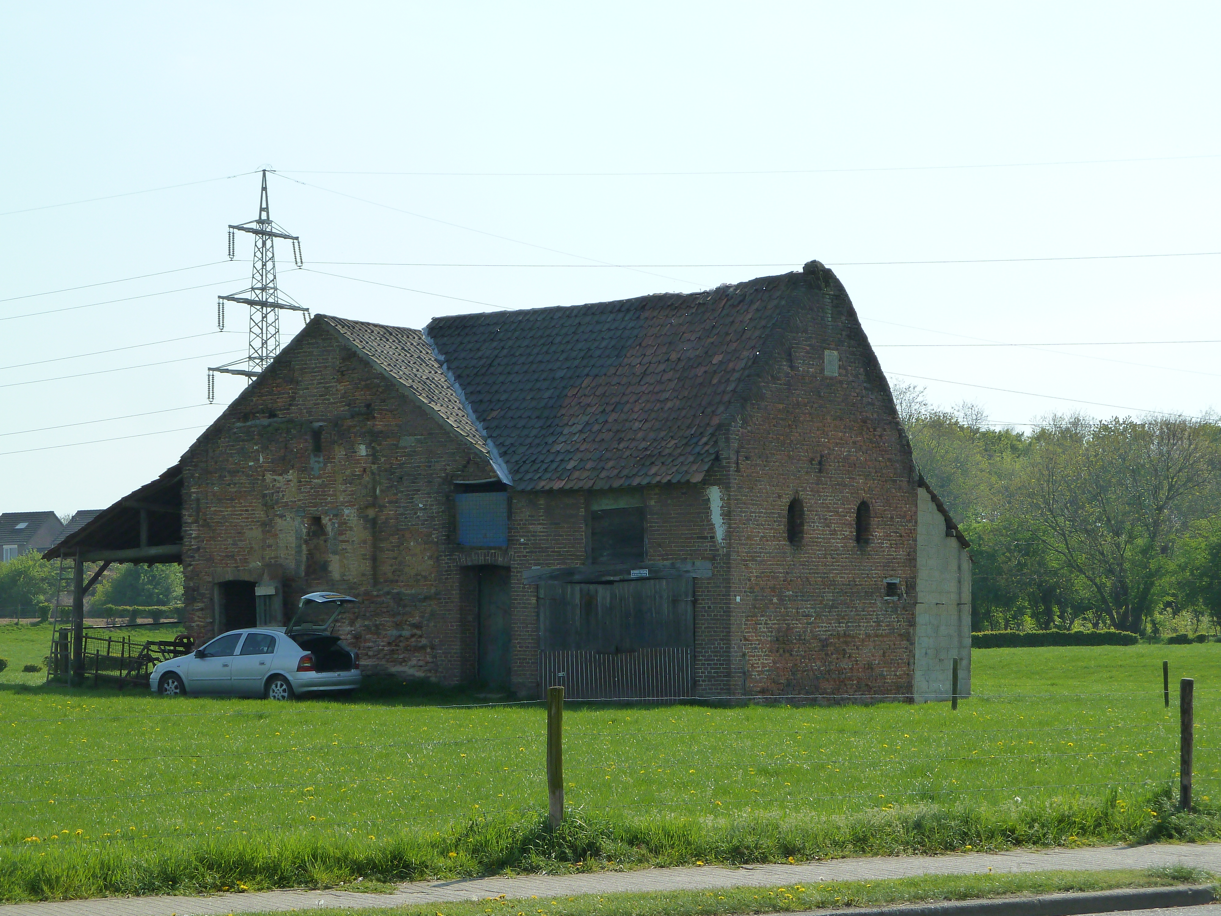 Oude Pastorie, Beek, Limburg, the Netherlands